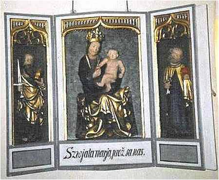 stolen Lady altar of Groß Radisch, Saxony